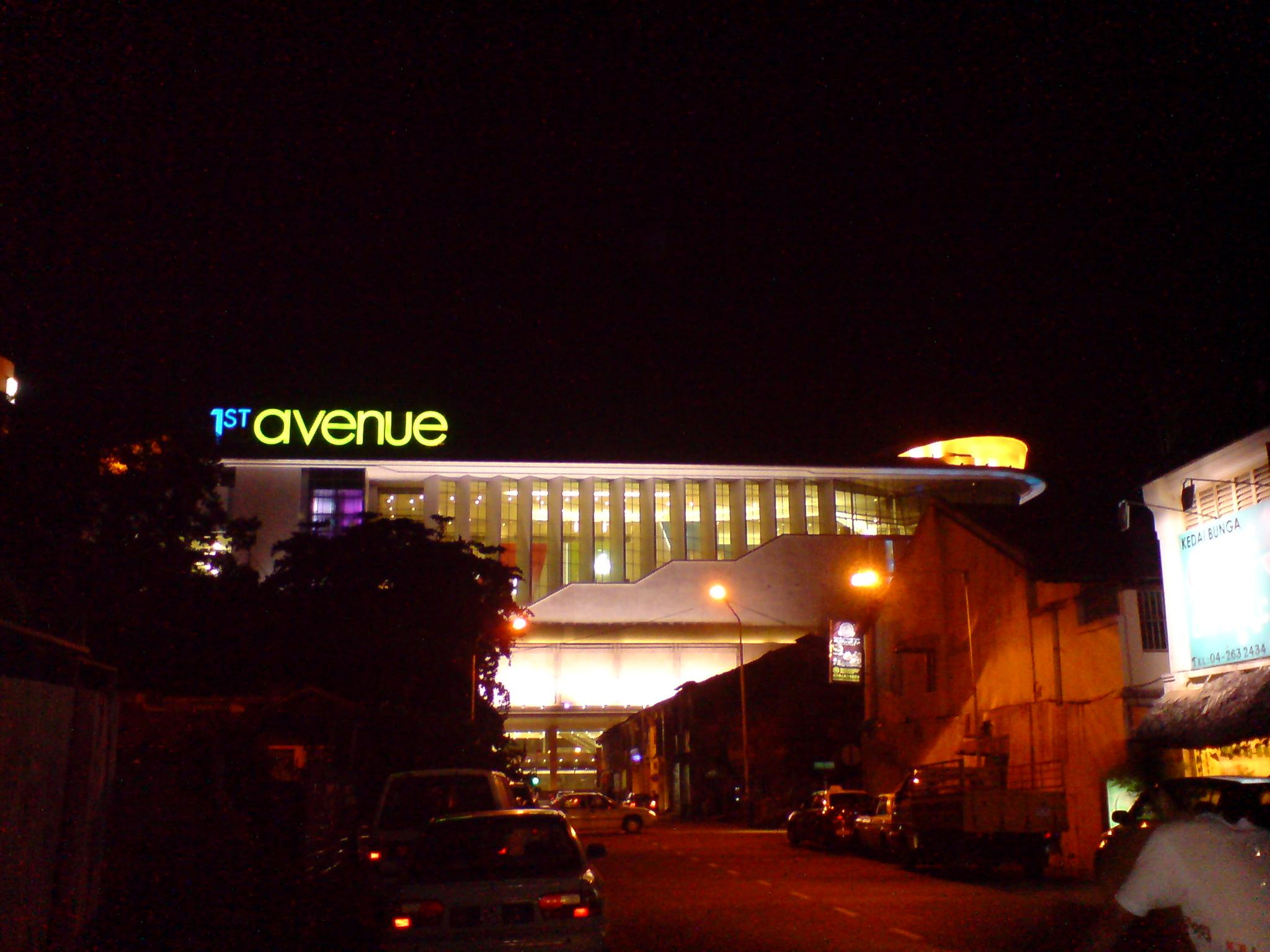 View To 1St Avenue Komtar City Mall